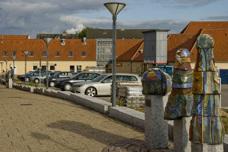 Small square in Frederikshavn, Denmark, with sculptures of Agnete Brittasius, a performing danish artist.